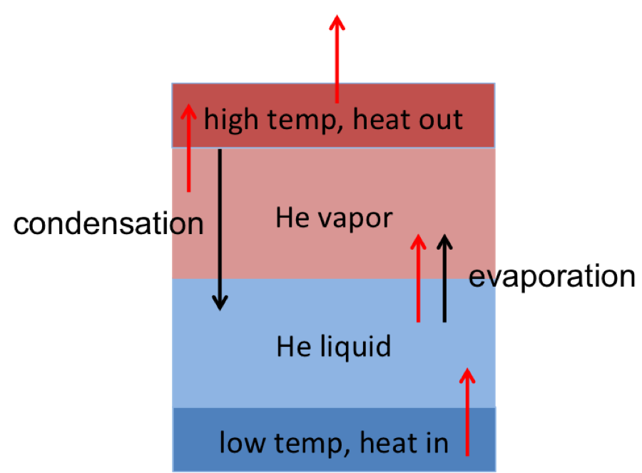 proposed mechanism of helium heat transfer phenomenon